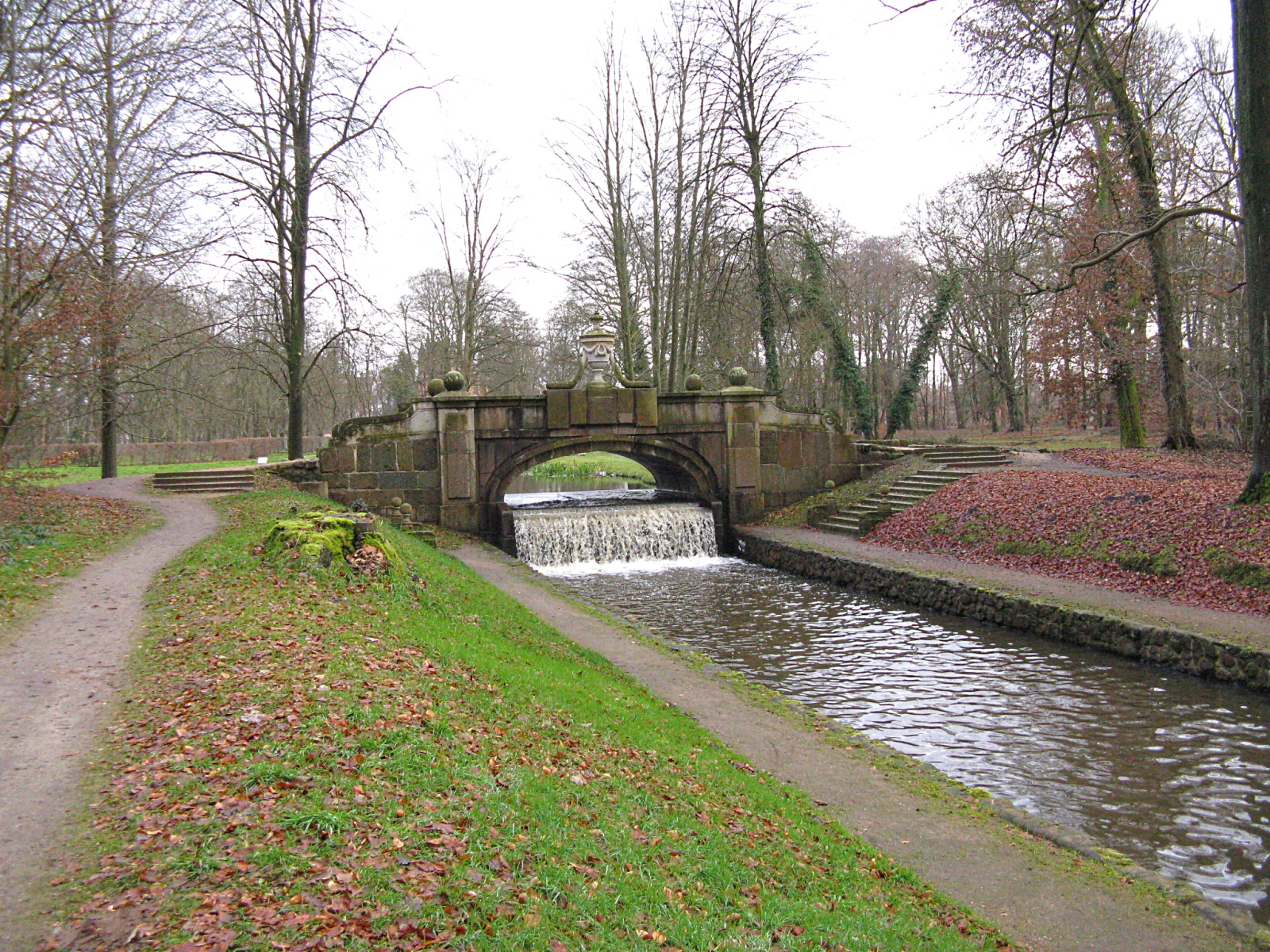 Stone Bridge in the park of Ludwigslust castle, Germany